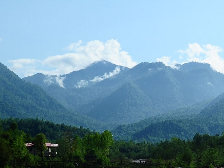 Mountains in Maklavan, Gilan, northern Iran.